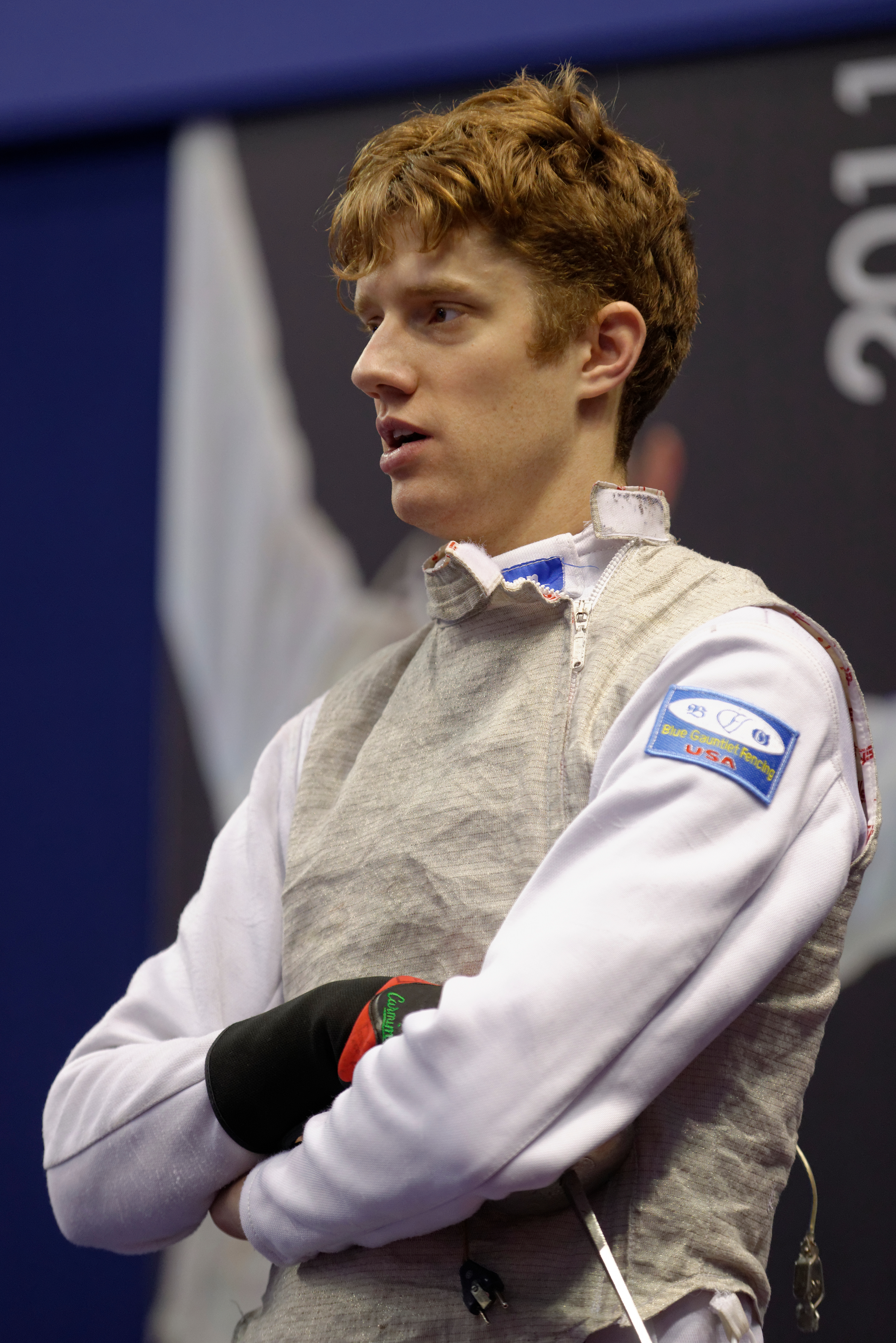 Anthony Prymack of Canada during their T16 match against Italy in the team event of the 2014 Challenge International de Paris (men's foil World Cup).